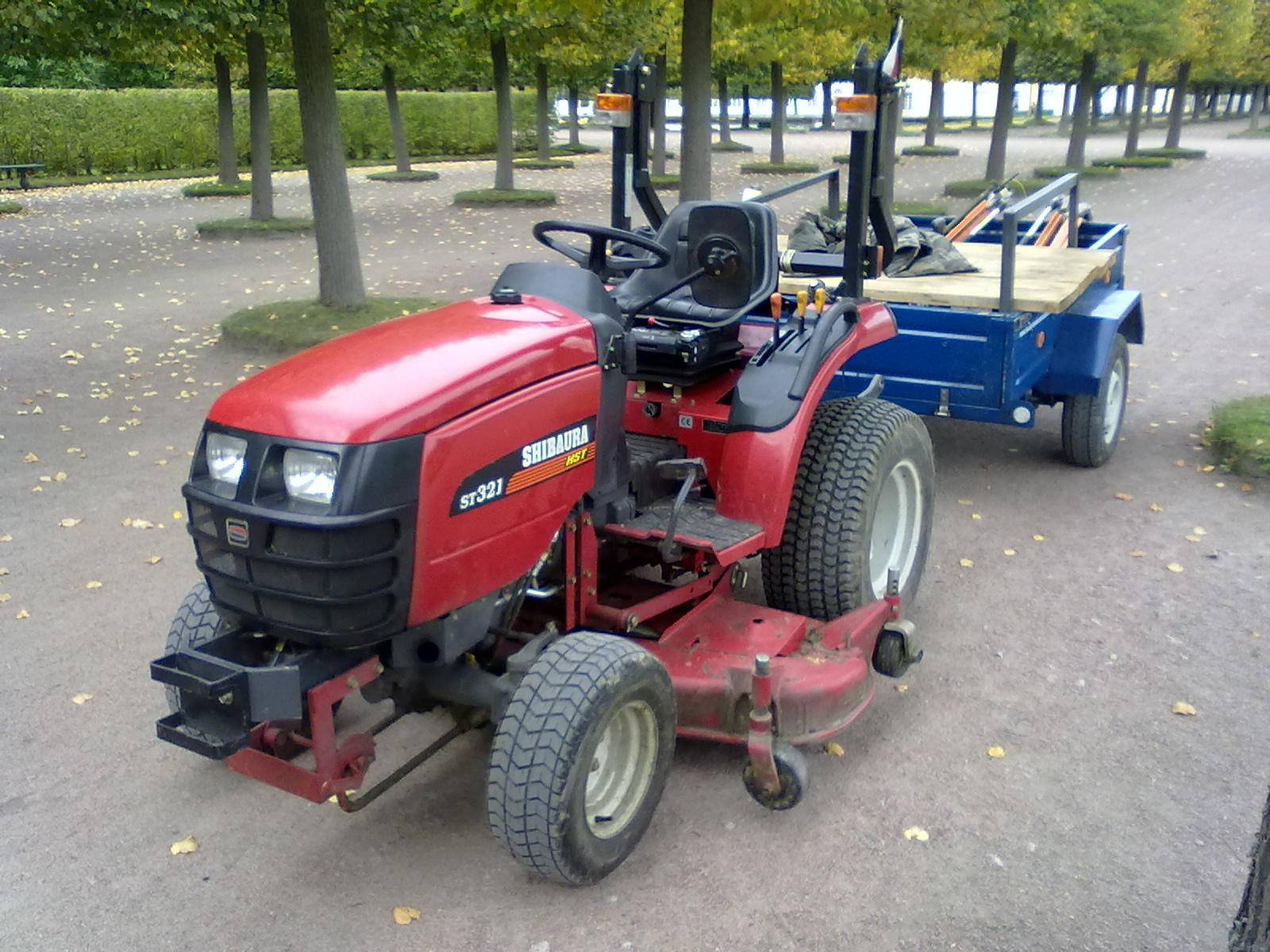 Shibaura ST321 compact tractor with mowing deck and trailer